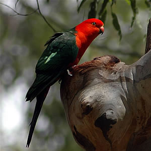 Male Australian King Parrot